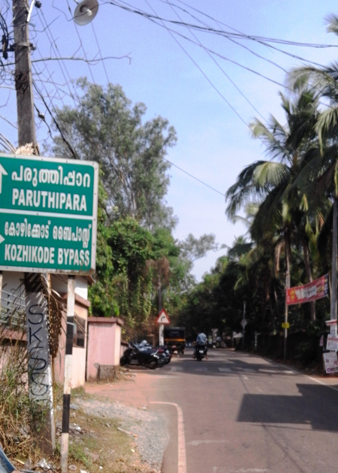 Paruthippara village, Feroke, Kozhikode District, Kerala province, India.